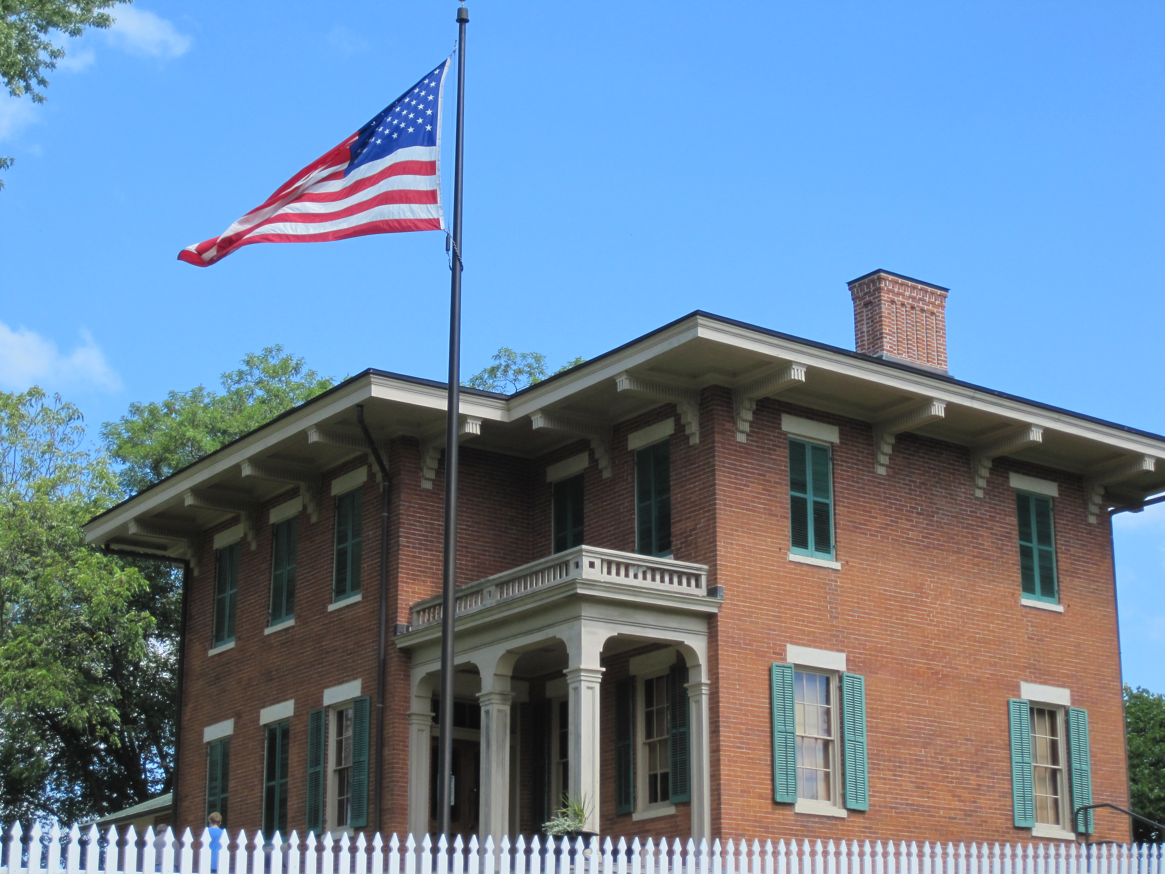 House of Ulysses S. Grant, Galena (Illinois).